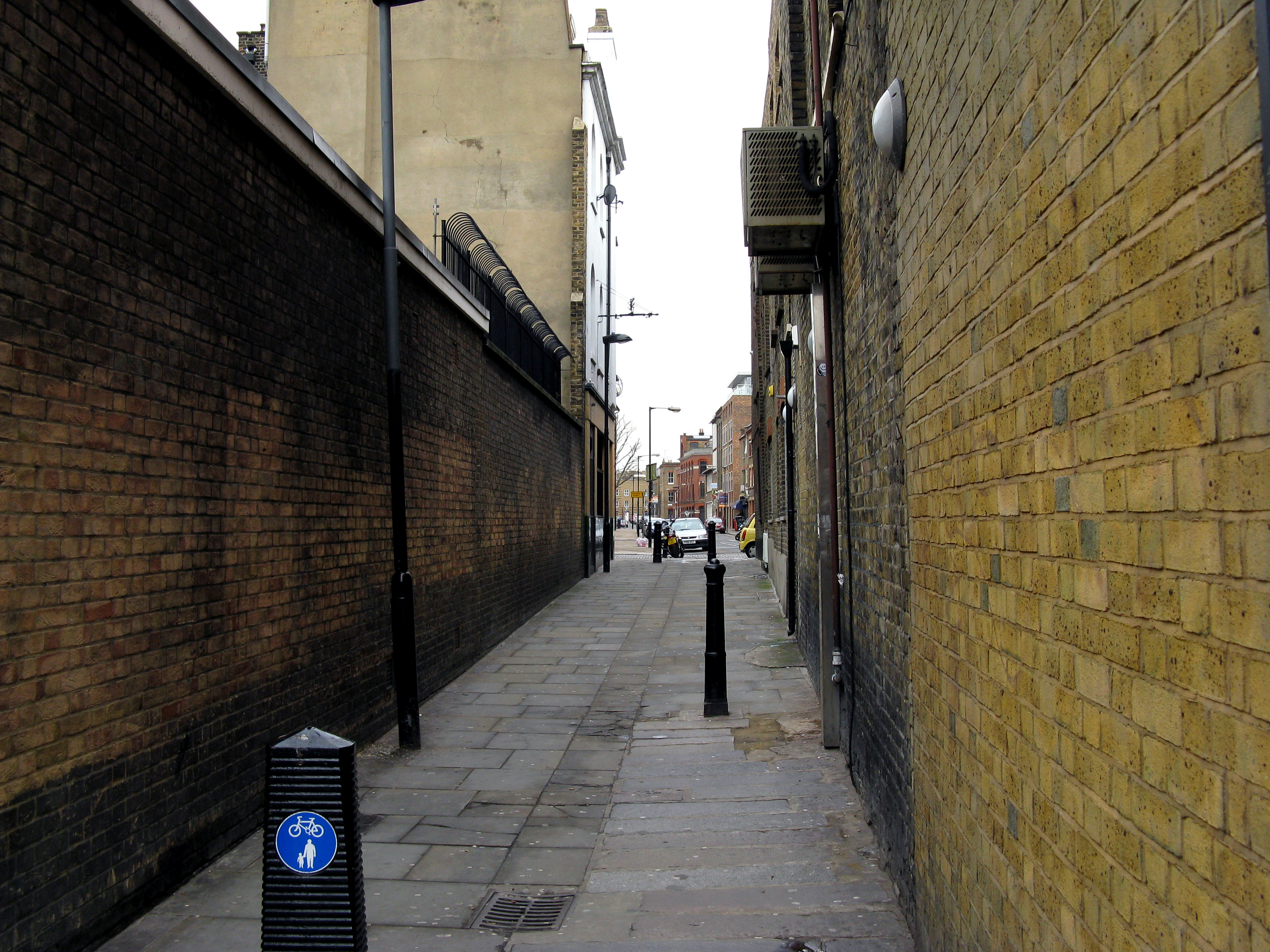 Shoreditch: Boundary Passage Looking east from Shoreditch High Street. Across the far end of this passage is Boundary Street, and straight ahead is Old Nichol Street.